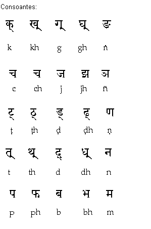 Devanāgarī: consonants 1 with Indian languages transliteration (ITRANS). Own work with freeware ITranslator99 - Ligia.